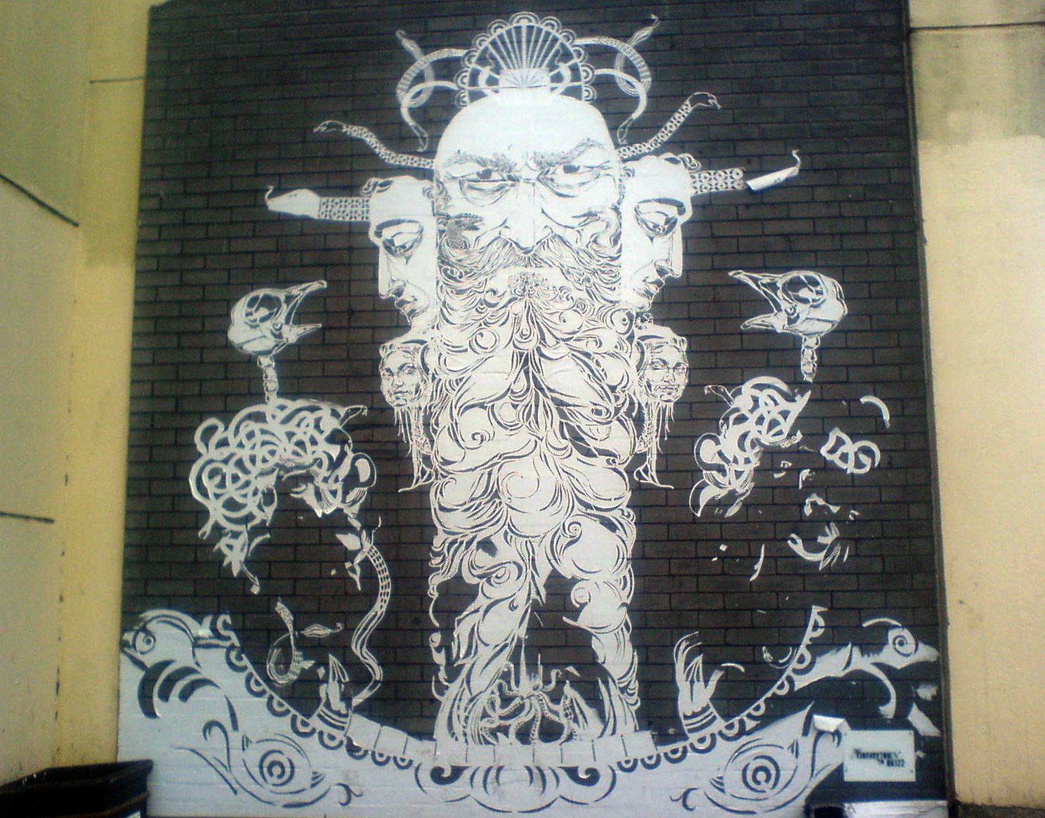 Graffiti in Gateshead